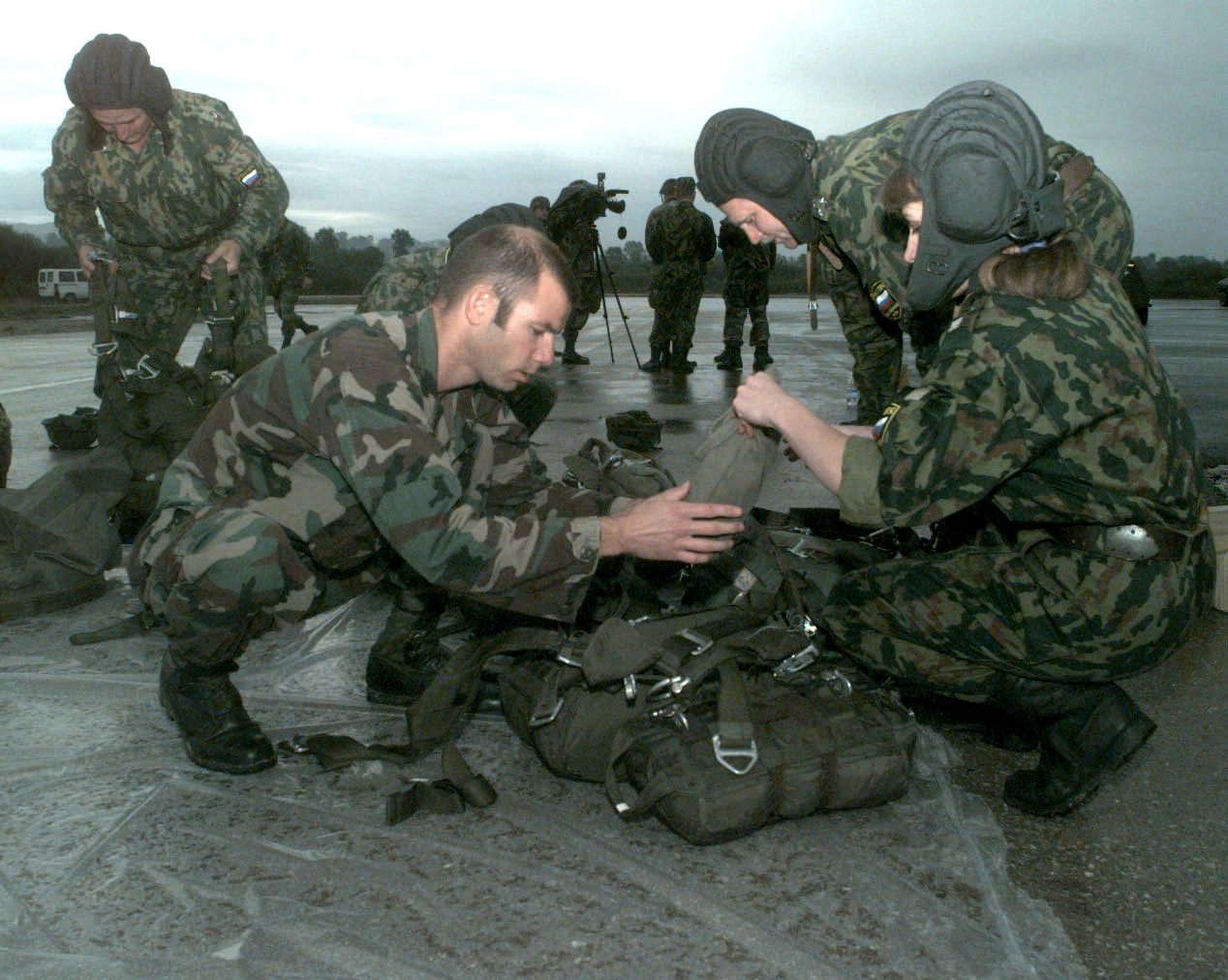 Staff Sgt. Russell Brion, U.S. Army (left), helps Russian Sgt. Helen Viliulina (right) with her parachute gear at Eagle Base, Tuzla, Bosnia and Herzegovina, on Sept. 28, 1998. Both soldiers are preparing to participate in a joint airborne exercise with Polish paratroopers of the 6th Air Assault, 16th Airborne Battalion. Sixty-four paratroopers will jump from a U.S. Air Force C-130 Hercules flown by the 67th Special Operations Squadron, RAF Mildenhall, England. Viliulina is member of the Russian Separate Airborne Brigade, Camp Ugljevik, Bosnia and Herzegovina. Brion, attached to the 10th Special Forces Group (Airborne), Stuttgart, Germany, is deployed to Bosnia and Herzegovina to support Operation Joint Forge.